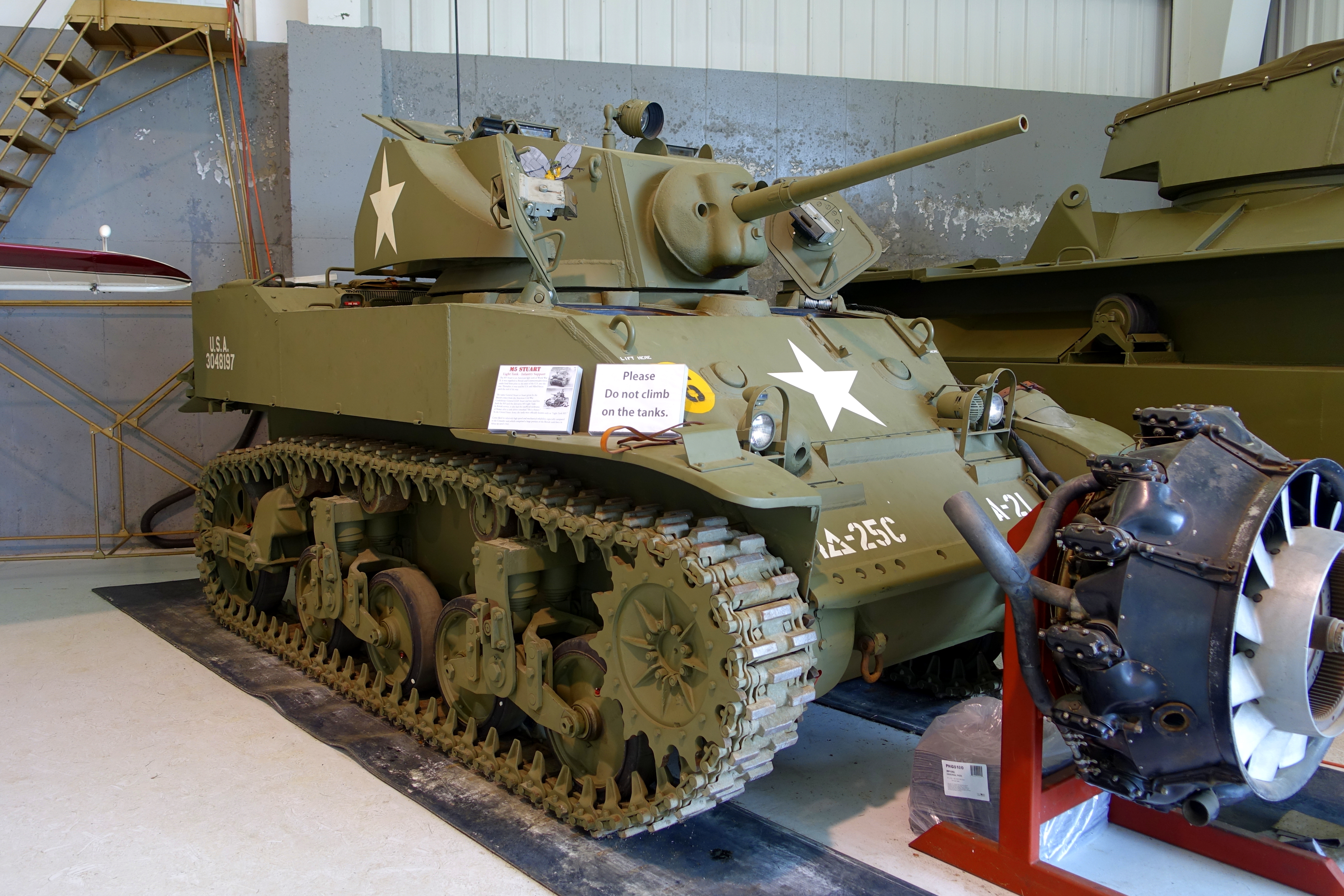 Exhibit in the Collings Foundation - Stow / Hudson, Massachusetts, USA.